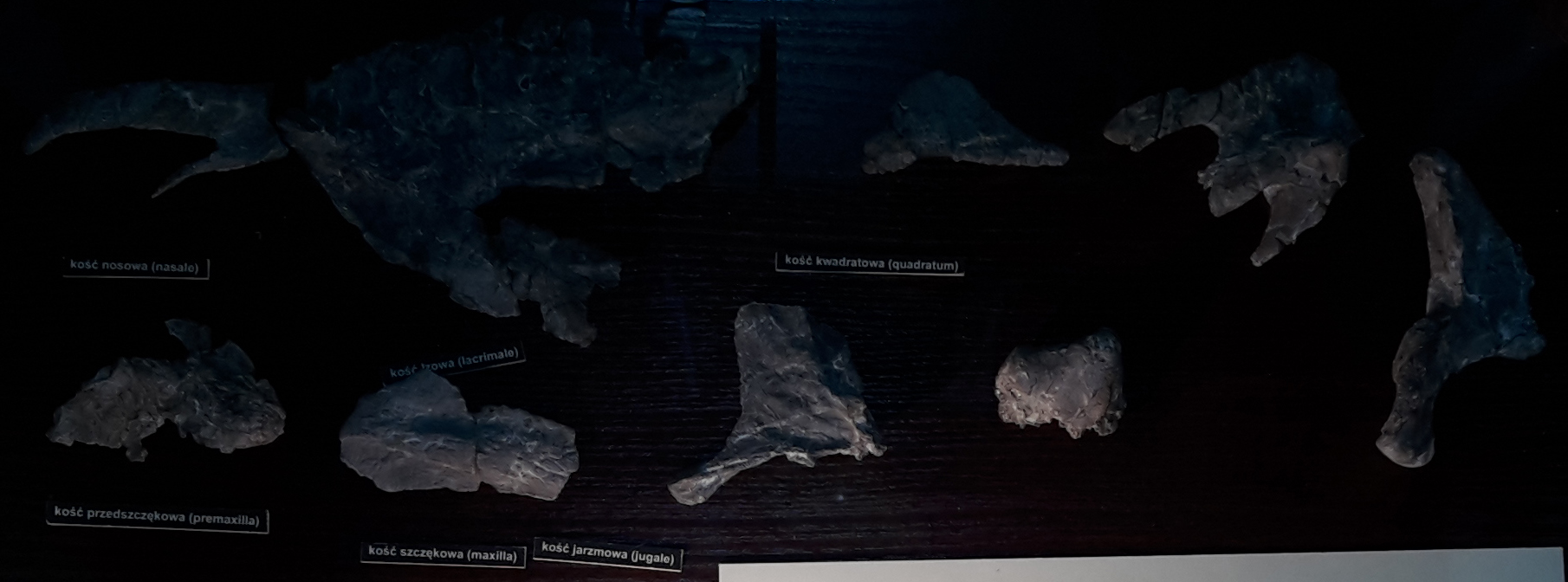 Polonosuchus skull bones, Museum of Evolution of Polish Academy of Sciences, Warsaw.